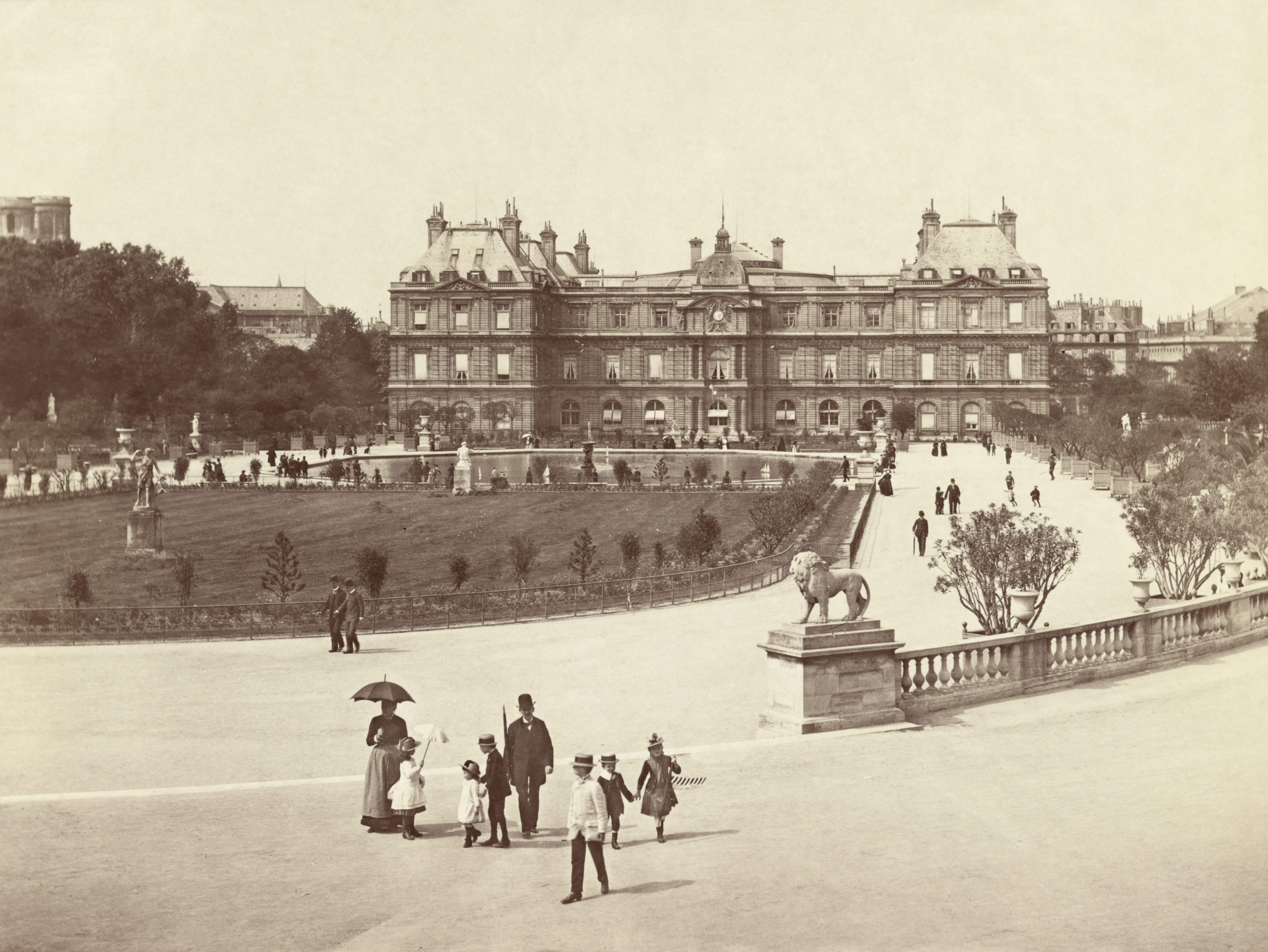 Photograph shows the people walking through Luxembourg Garden with the Palace of Luxembourg in the background.